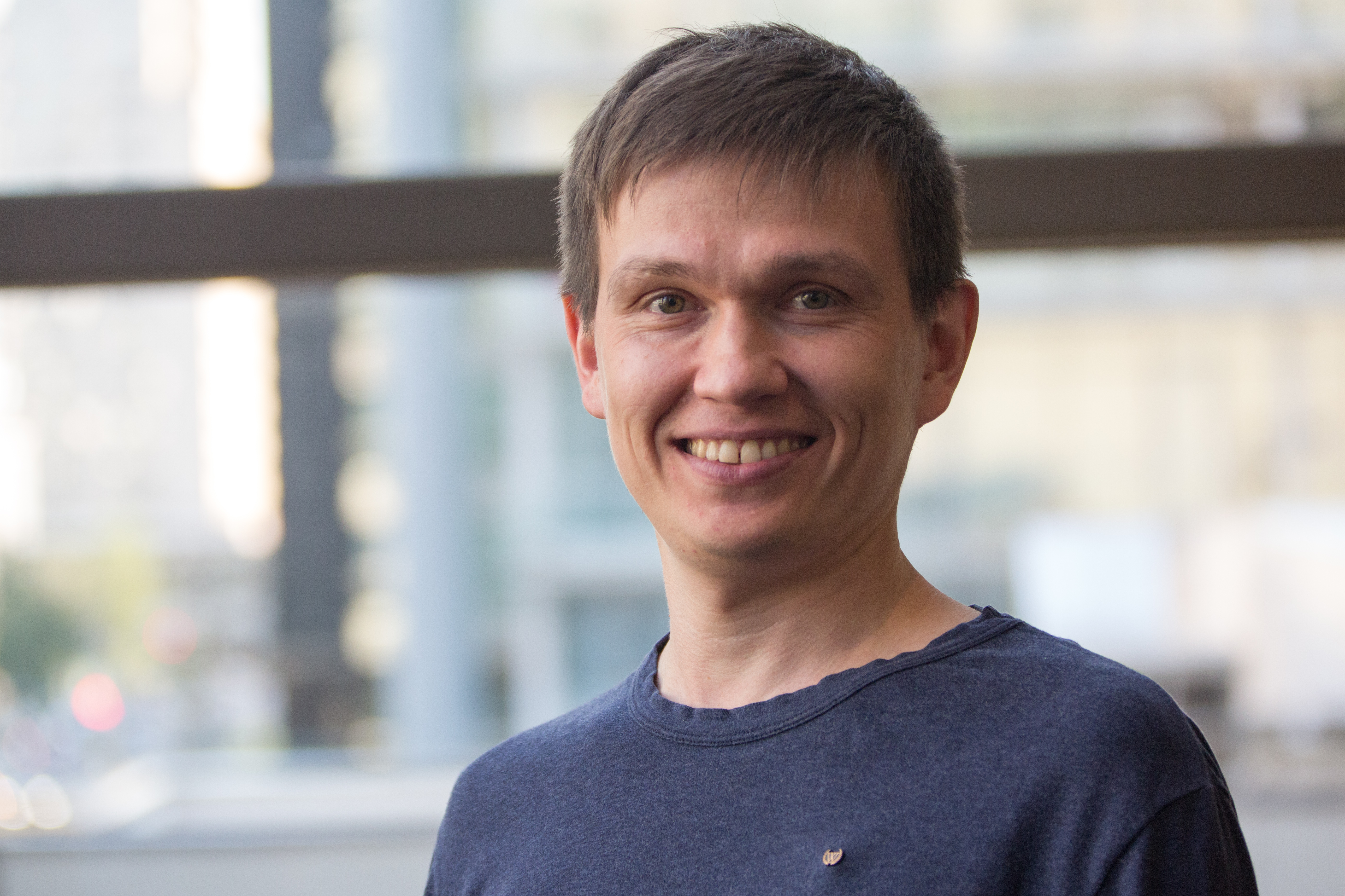 Farkhad Fatkullin